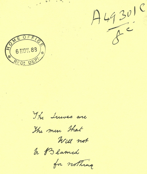 Copy of attachment to a Police report from Chief Commissioner Sir Charles Warren of the Metropolitan Police, to the Home Office